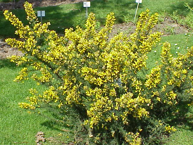 Species: Ulex europaeus Family: Fabaceae Image No. 9